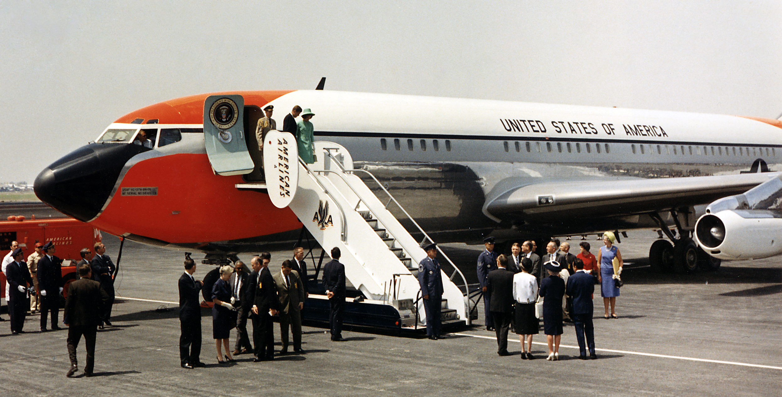 Arrival in Mexico City. President and Mrs. Kennedy debark Air Force One. Mexico City, Mexico, International Airport.